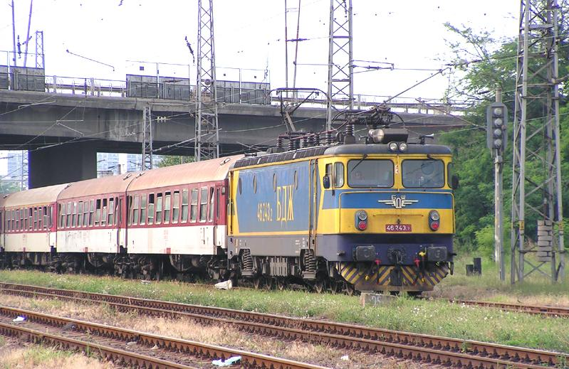 Although trains in Bulgaria aren't very luxurious and they aren't the fastest way to travel, they are still the best way to travel if you don't mind some minor inconveniences and beauty of the cars.